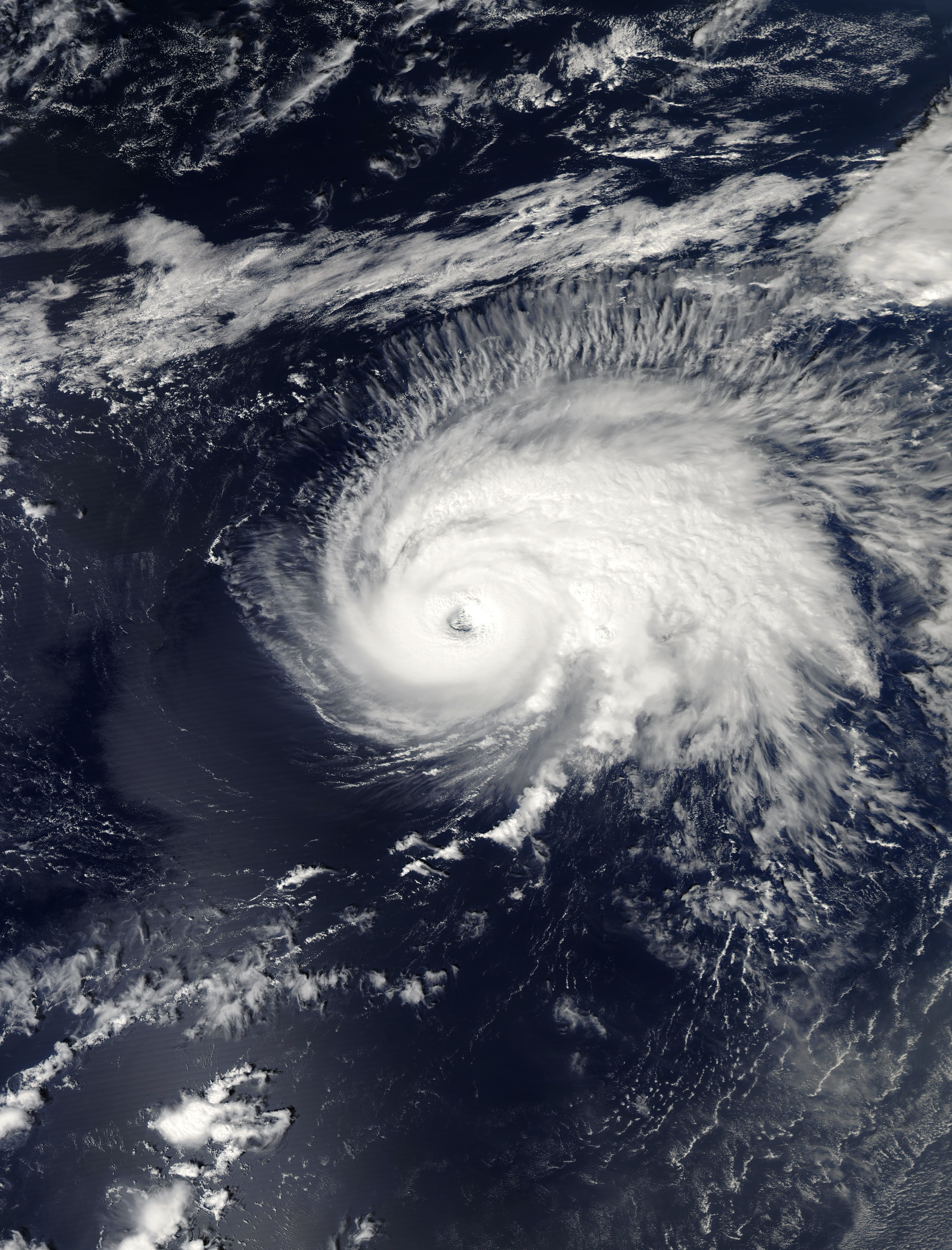 From NASA: Hurricane Gordon was the seventh named storm of the 2006 Atlantic Hurricane Season. Gordon started as a tropical depression off the Leeward Islands in the Caribbean. Since forming on September 10, it had steadily grown in power and size. On September 13, 2006, it became a Category One hurricane, and it intensified further in the next day, reaching Category Three status in the following 24 hours, according to the National Hurricane Center. This made it the first major hurricane in the 2006 Atlantic hurricane season: The previous two hurricanes in 2006, Ernesto and Florence, never intensified beyond Category One strength. This photo-like image was acquired by the Moderate Resolution Imaging Spectroradiometer (MODIS) on NASA’s Aqua satellite on September 14, 2006, at 1:10 p.m. local time (17:10 UTC). Gordon is a very large and well-defined hurricane in this image, possessing a distinct, tightly wound central portion, a strong and complete eyewall structure all the way around the eye of the storm, and an eye with only a little cloud cover (sometimes called an open, or partially open, eye). These characteristics are all hallmarks of powerful hurricanes. To the north and east of the storm, a large band of more diffuse cloud is pocked with darker spots where powerful thunderstorm systems are forcing up tall cloud towers that cast shadows onto the cloud deck below. Hurricane Gordon had sustained winds of around 185 kilometers per hour (115 miles per hour) at the time this satellite image was acquired, according to The University of Hawaii’s Tropical Storm information center. Gordon, however, was nowhere near land and as of September 15, it was projected to weaken over cooler waters as it veered northeast in the general direction of the Azores.